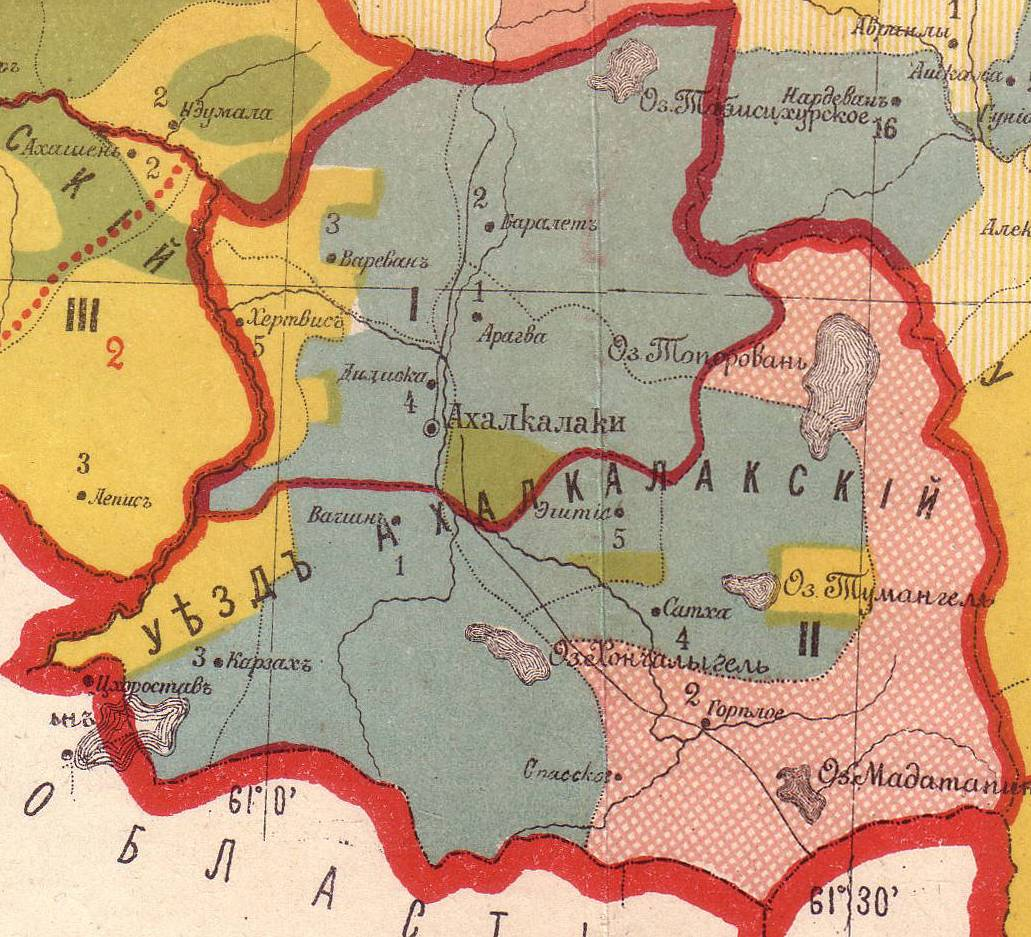 Ethnographic map of the Akhalkalaki uyezd